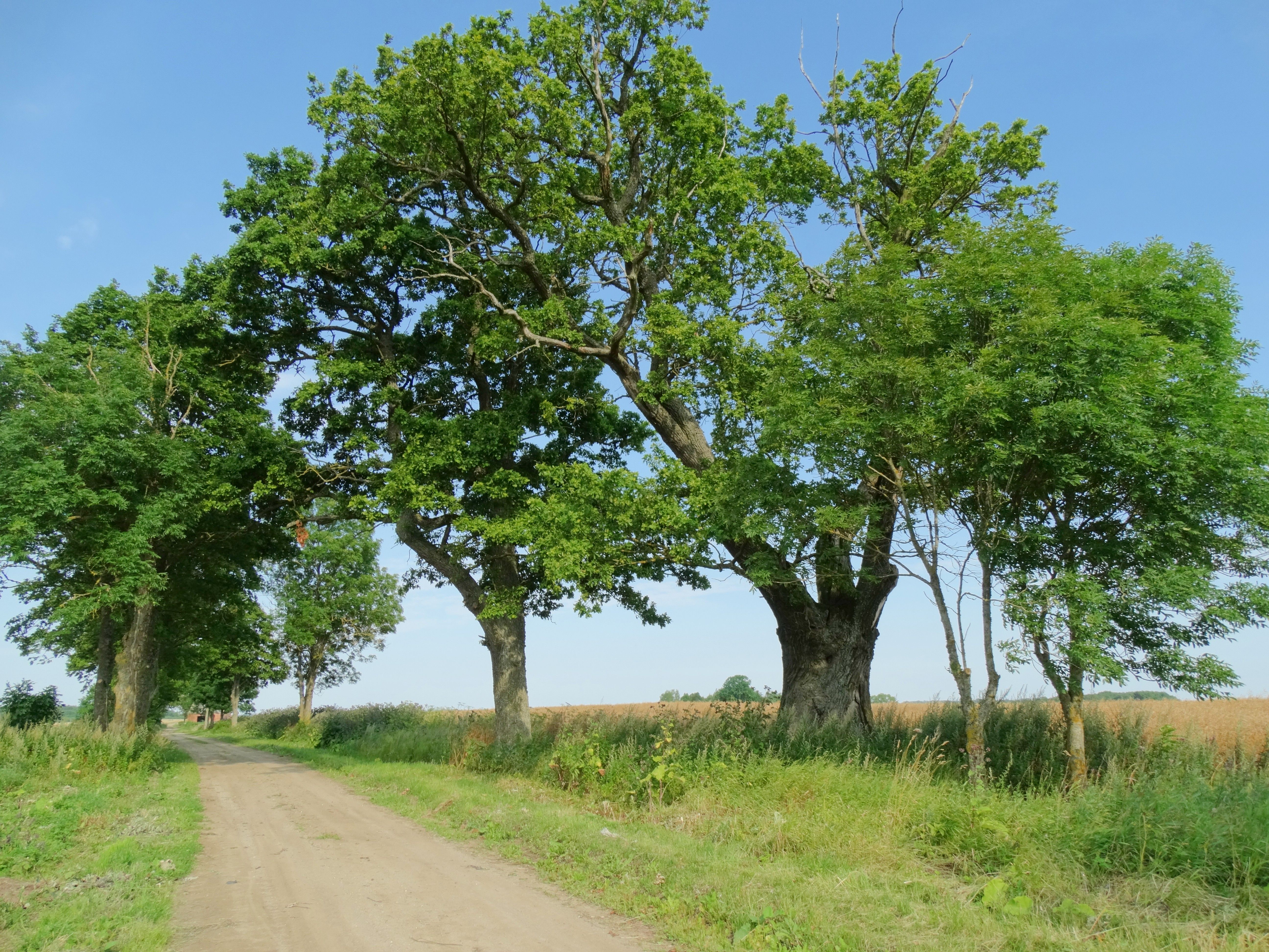 Pamūšis Oak Storasis, Pakruojis District, Lithuania